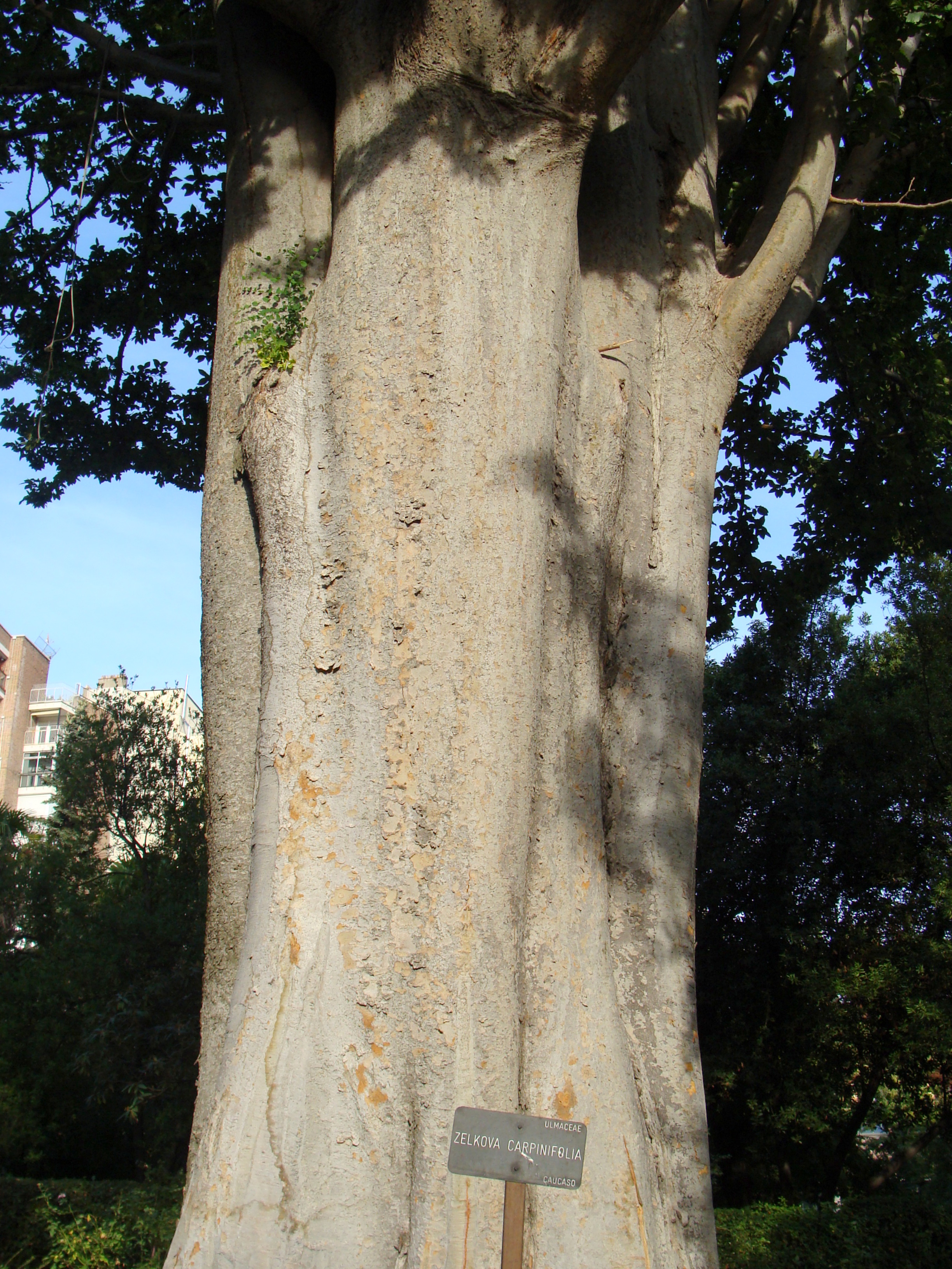 Zelkova carpinifolia Trunk (Botany) from the Royal Botanical Garden (Madrid. Spain)